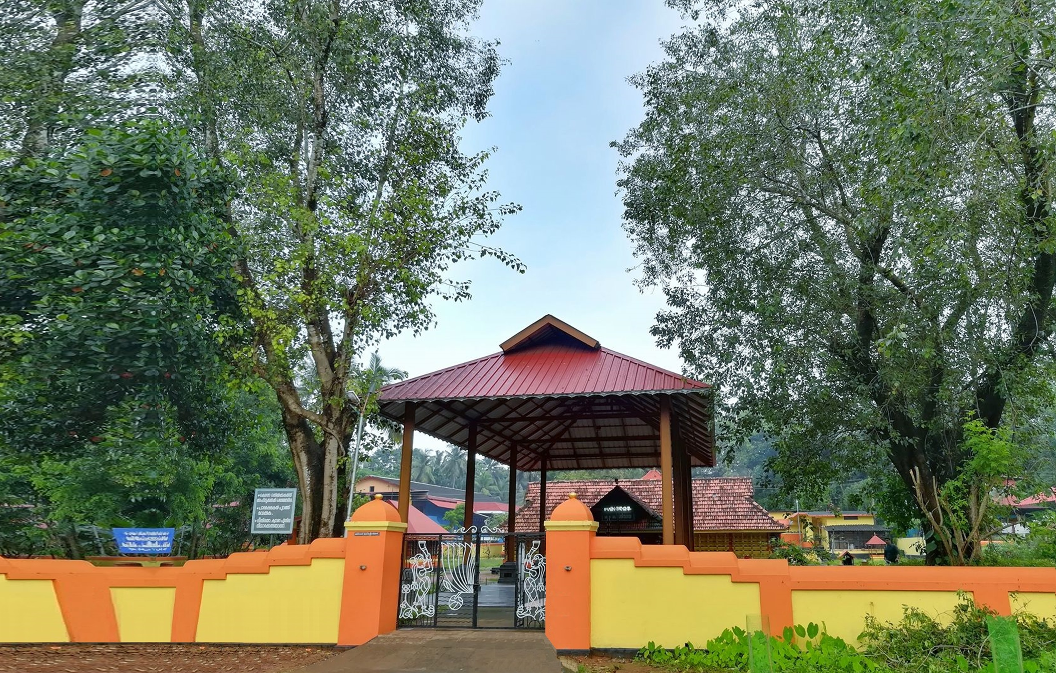 Kattakampal Mahadeva Temple